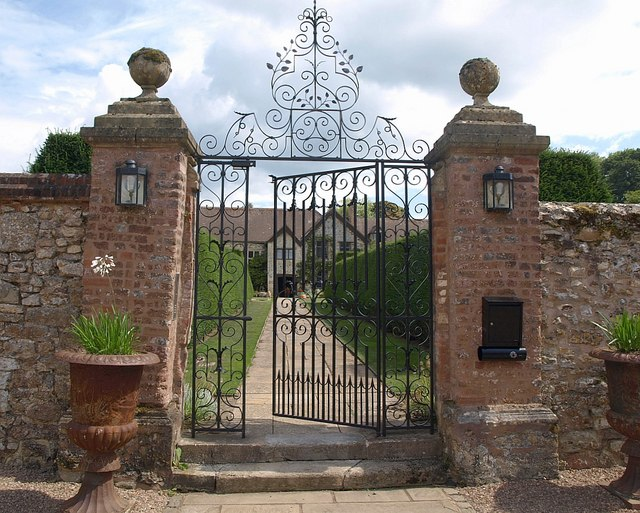 Knightstone